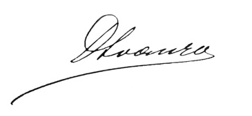 Dominik Avanzo's signature. He was a successful architect in Vienna at the end of the 19th Century. See German Wiki.